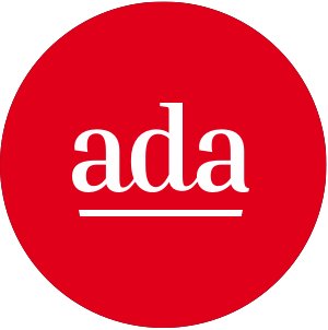 Logo of Ada Magazin